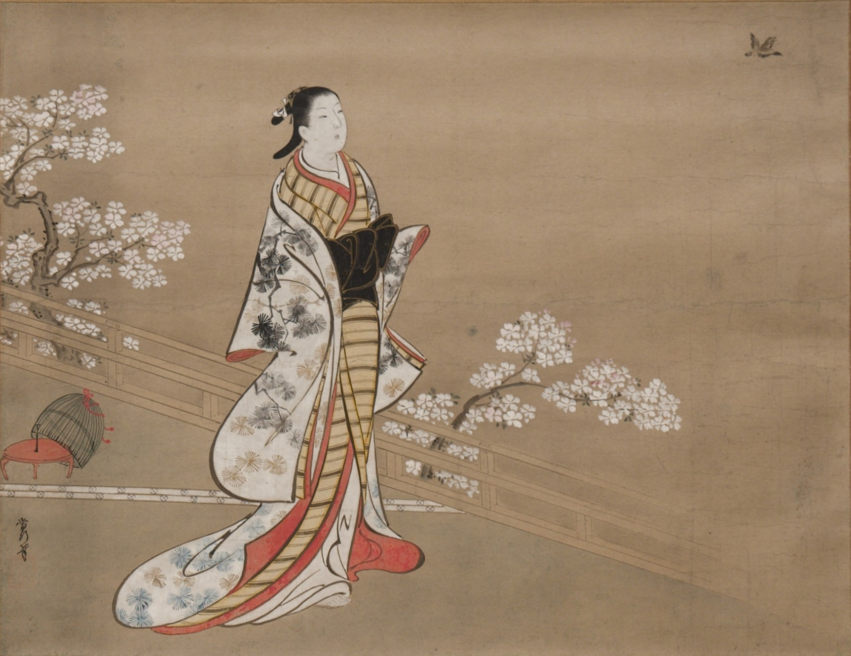 Ukiyo-e painting; hanging scroll; ink and color on paper